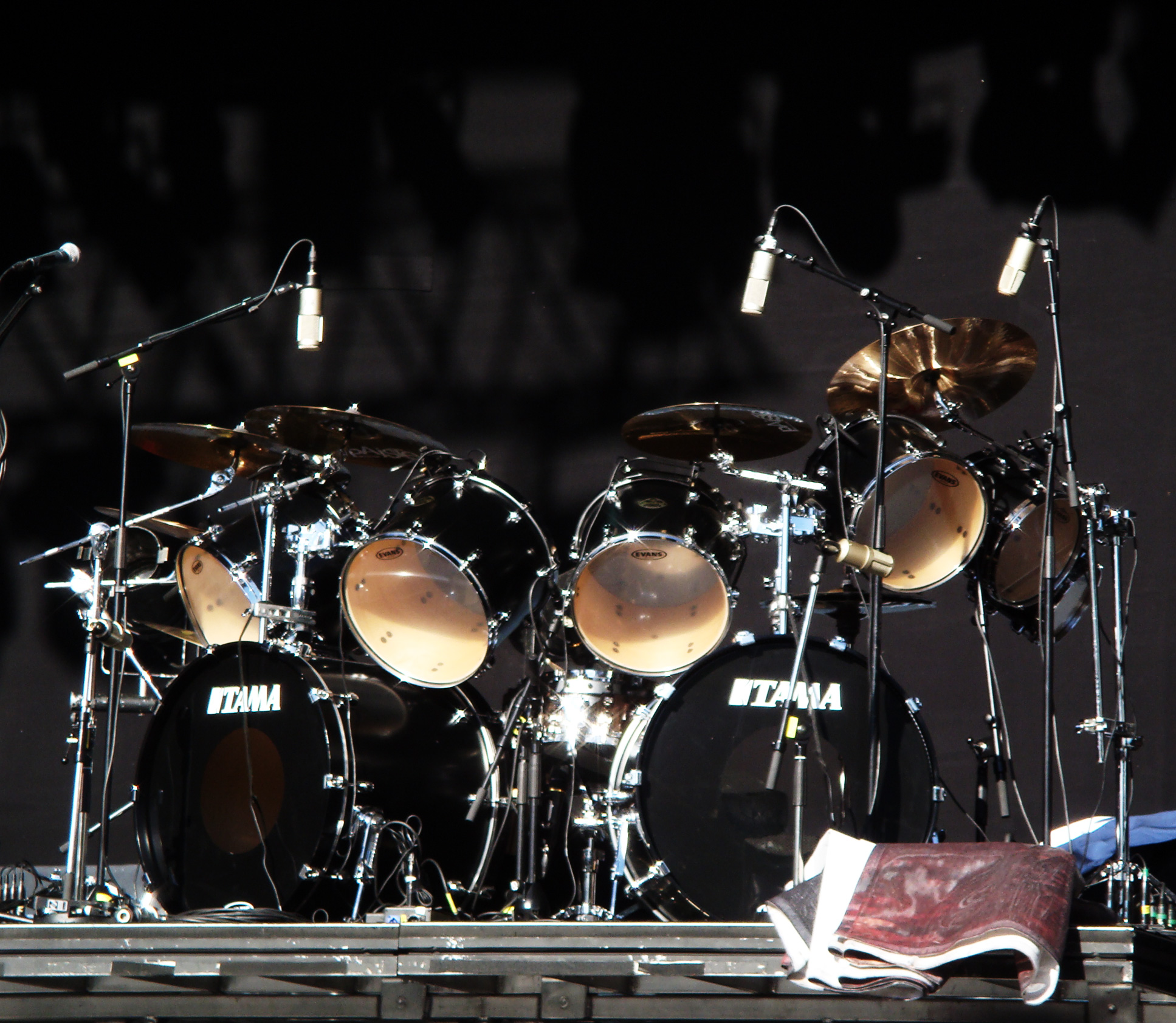 Tama Starclassic Maple drum kit played by Dave Lombardo of Slayer